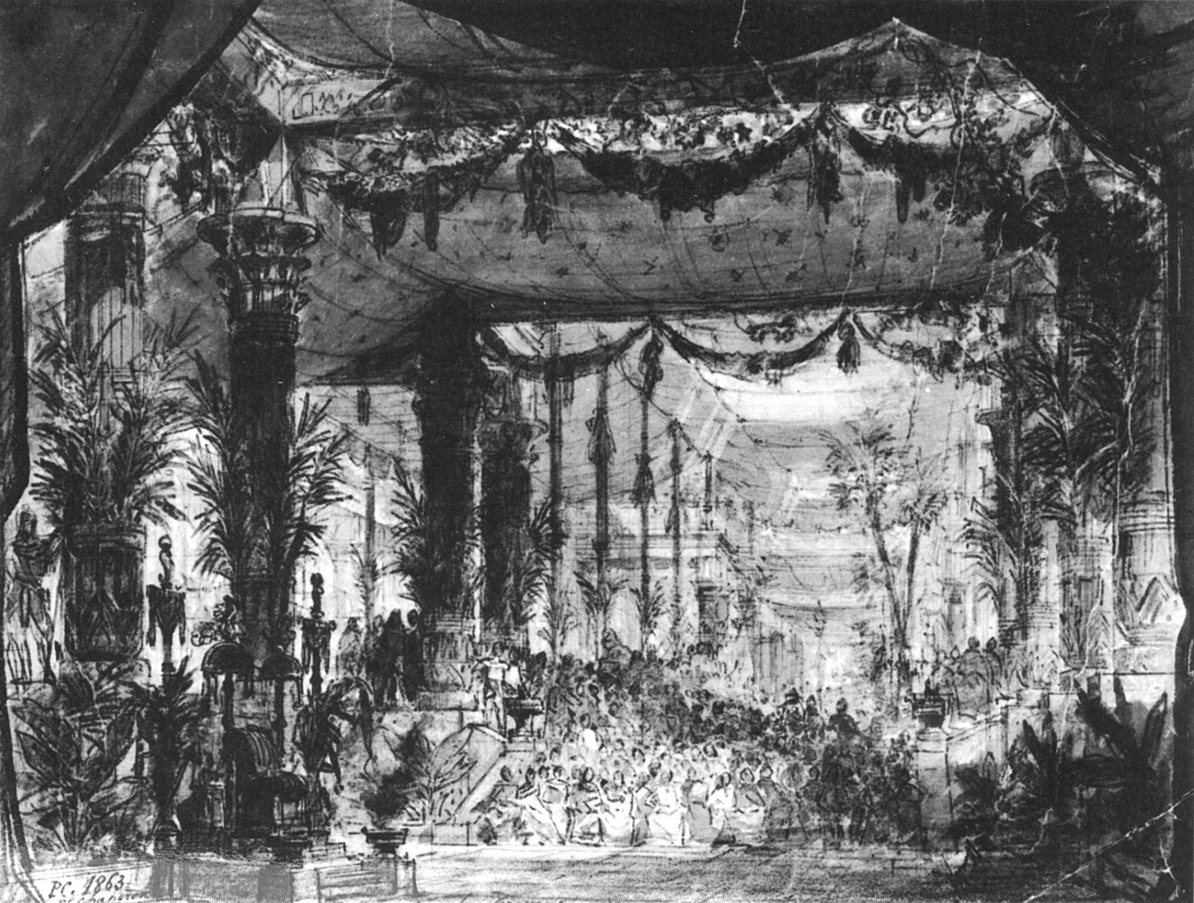 Stage design for Dido's palace for the premiere of Berlioz's Les Troyens à Carthage at the Théâtre Lyrique on 4 November 1863.